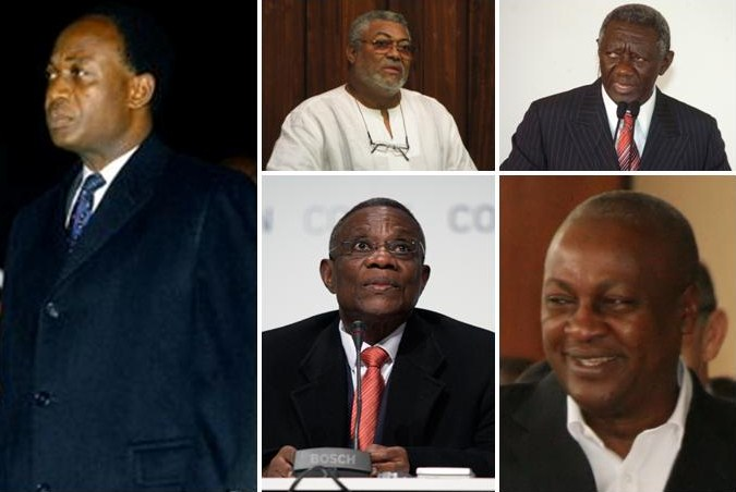 Presidents of Ghana: Kwame Nkrumah, Jerry Rawlings, John Kufuor, John Atta Mills and John Dramani Mahama.